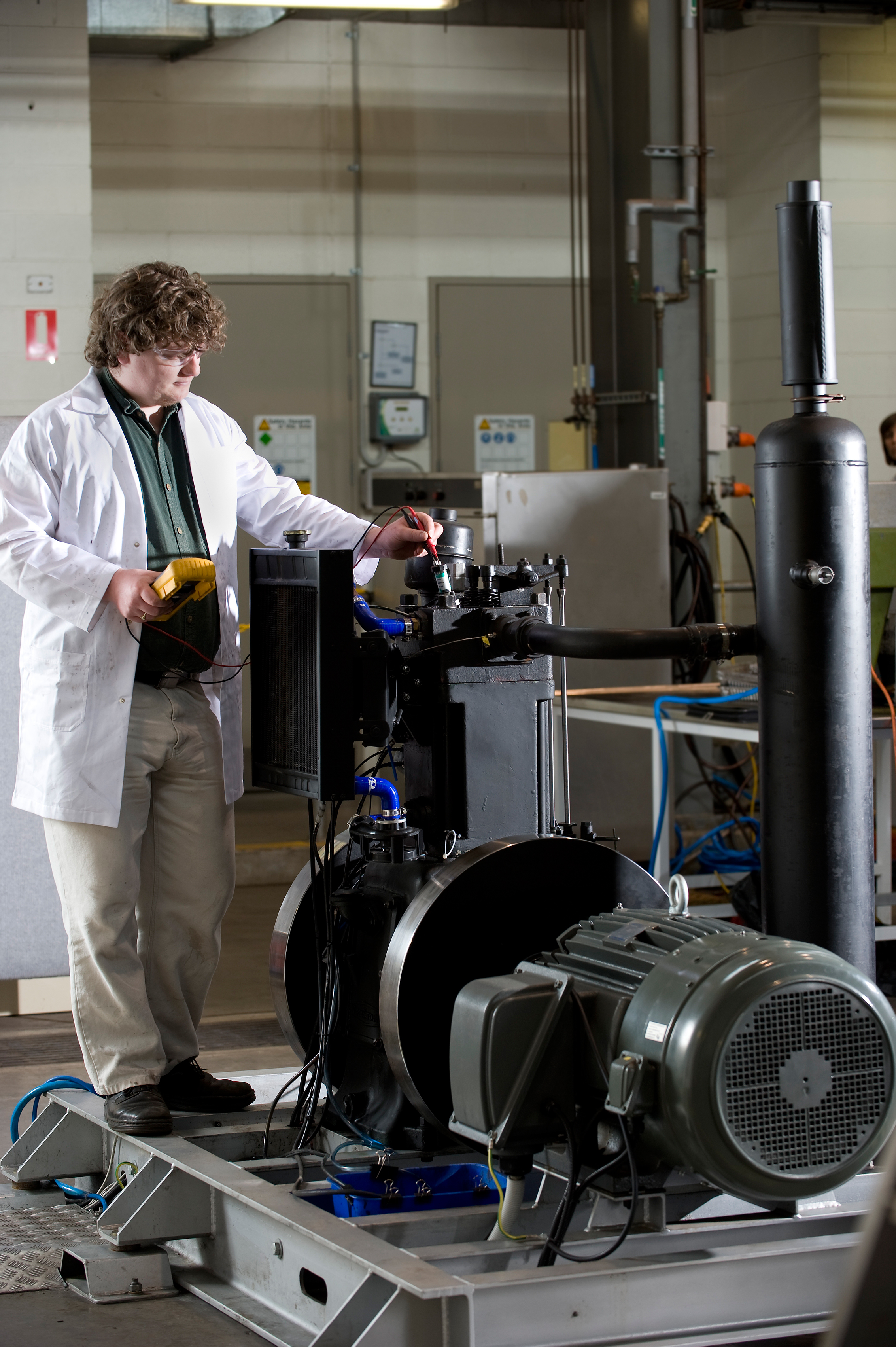 The Direct Injection Carbon Engine trial is designed to maximise the value and reduce emissions associated with the use of Australia's brown coal resource. CSIRO and its industry partners plan to trial the Direct Injection Carbon Engine (DICE) in Victoria's Latrobe Valley, the second largest and lowest cost brown coal resource in the world, with the aim of reducing emissions from brown coal-generated electricity by 50 per cent compared to current technology.